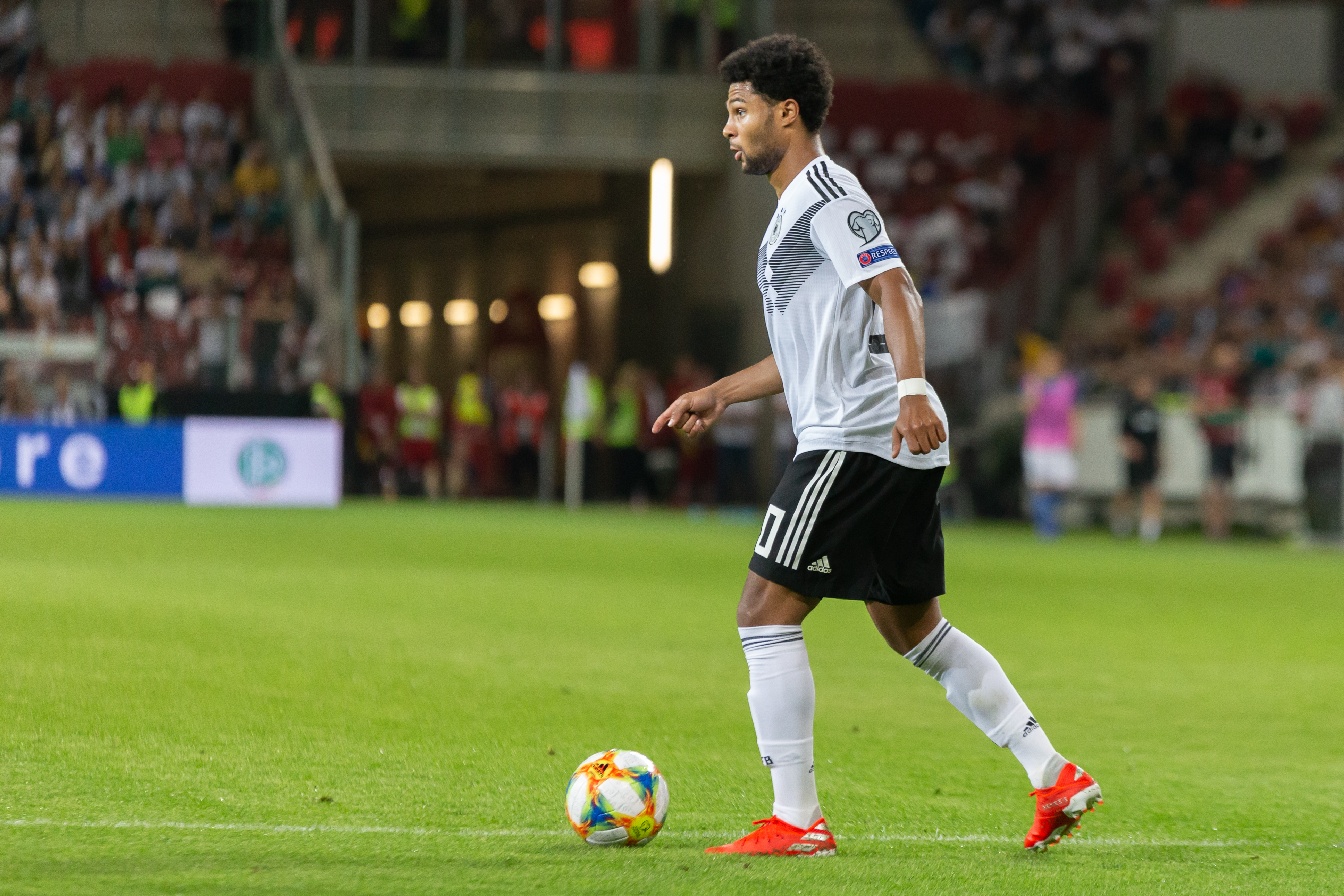 UEFA Euro 2020 qualifier Germany-Estonia